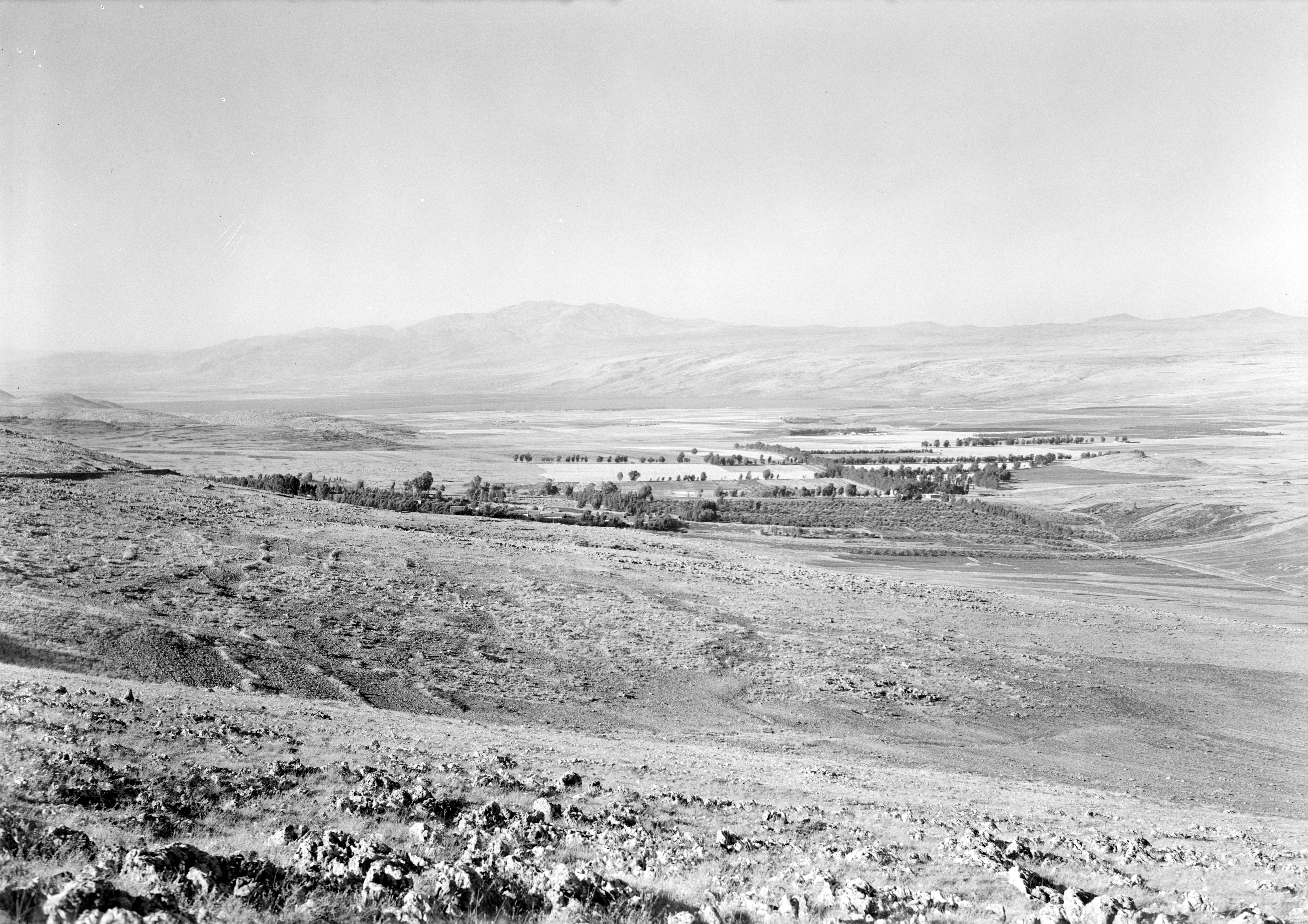 Lake Huleh & Mt. Hermon from the Safad road 1940 1946 TITLE: Huleh district, (Lake Merom), Lake Huleh & Mt. Hermon from the Safad road CALL NUMBER: LC-M34- 11650[P&P] REPRODUCTION NUMBER: LC-DIG-matpc-14490 (digital file from original photo) RIGHTS INFORMATION: No known restrictions on publication. MEDIUM: 1 negative : safety film ; 5 x 7 in. CREATED/PUBLISHED: [between 1940 and 1946] CREATOR: Matson Photo Service, photographer. NOTES: Gift; Episcopal Home; 1978. Title and date from: photographer's logbook: Matson Registers, v. 2, [1940-1946]. SUBJECTS: Israel--Hula Valley. FORMAT: Safety film negatives. PART OF: G. Eric and Edith Matson Photograph Collection REPOSITORY: Library of Congress Prints and Photographs Division Washington, D.C. 20540 USA DIGITAL ID: (digital file from original photo) matpc 14490 CONTROL #: mpc2005009748/PP